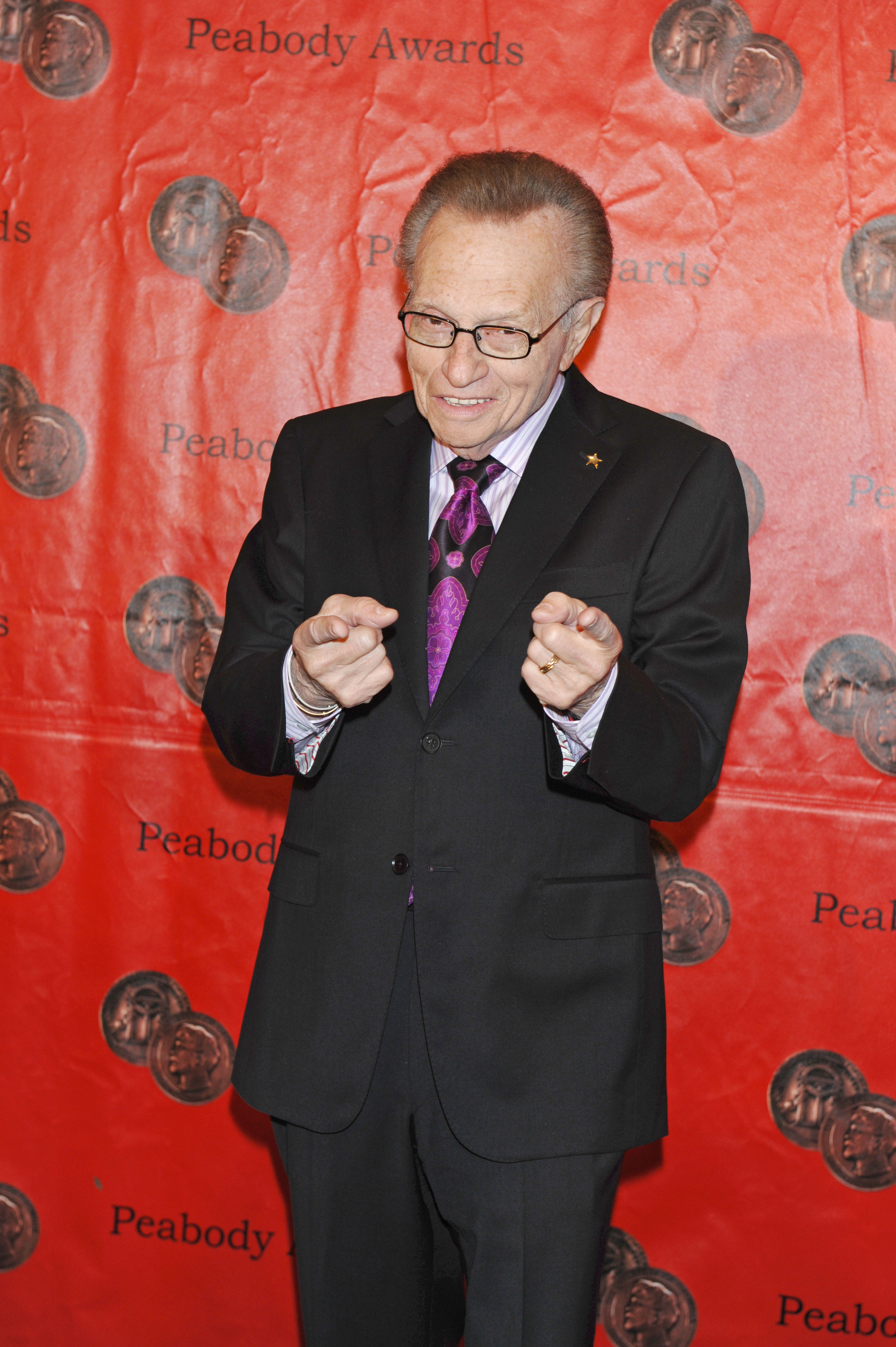 New York, NY 05/23/11- The University of Georgia Presents the 70th Annual George Foster Peabody Awards -PICTURED: -PHOTO by: Alex Oliveira/startraksphoto.com -AOH_1285 Startraksphoto NY,NY 10010 For licensing please call 212-414-9464 or